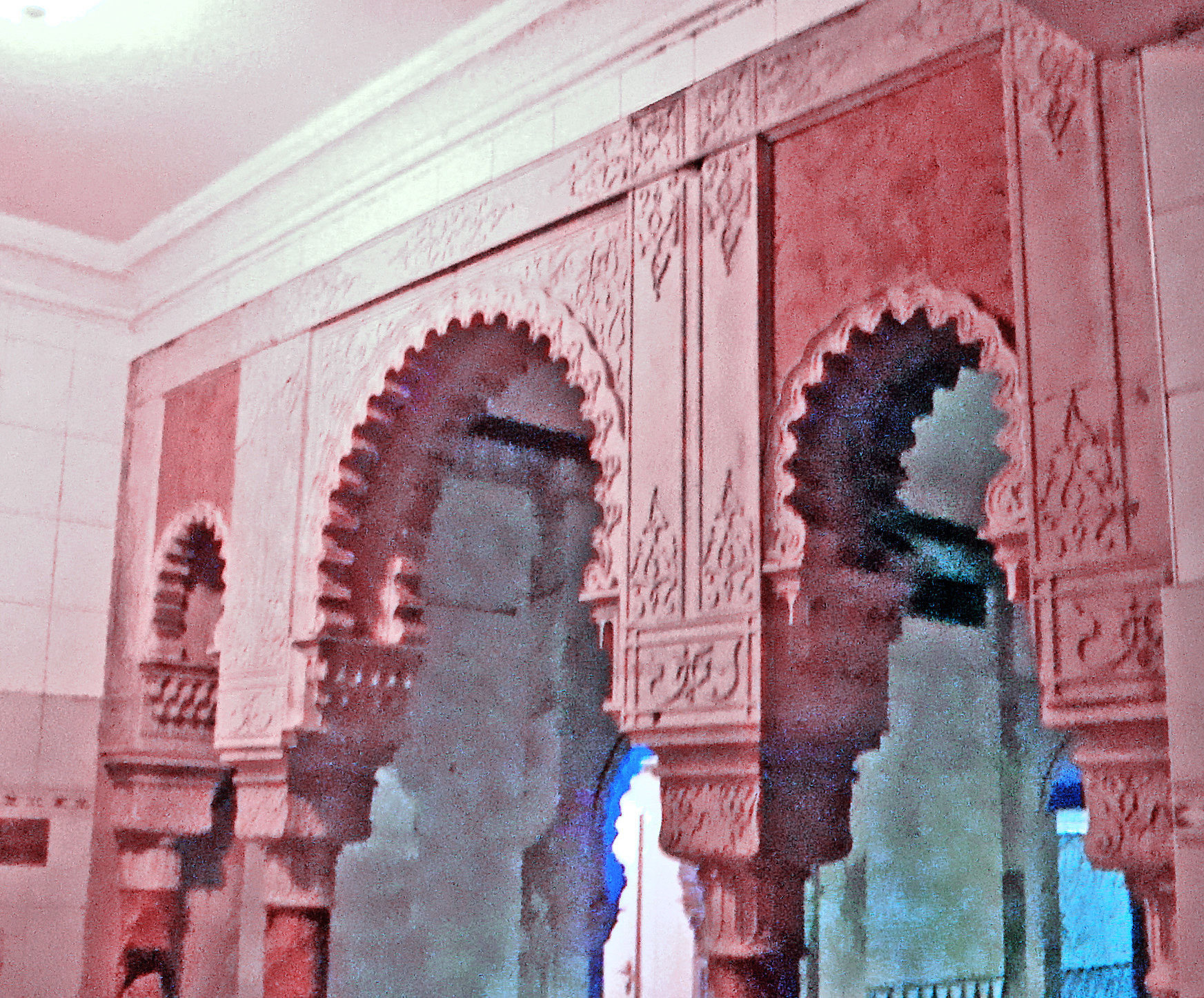 Architectural detail in the Central Bathhouse Vienna designed by the Czada brothers in the Moorish Revival style